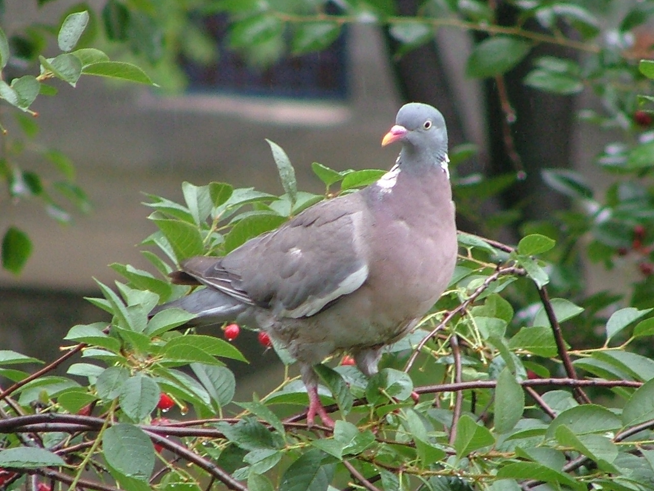 Wood Pigeon (Columba palumbus). (Gdansk/Poland)